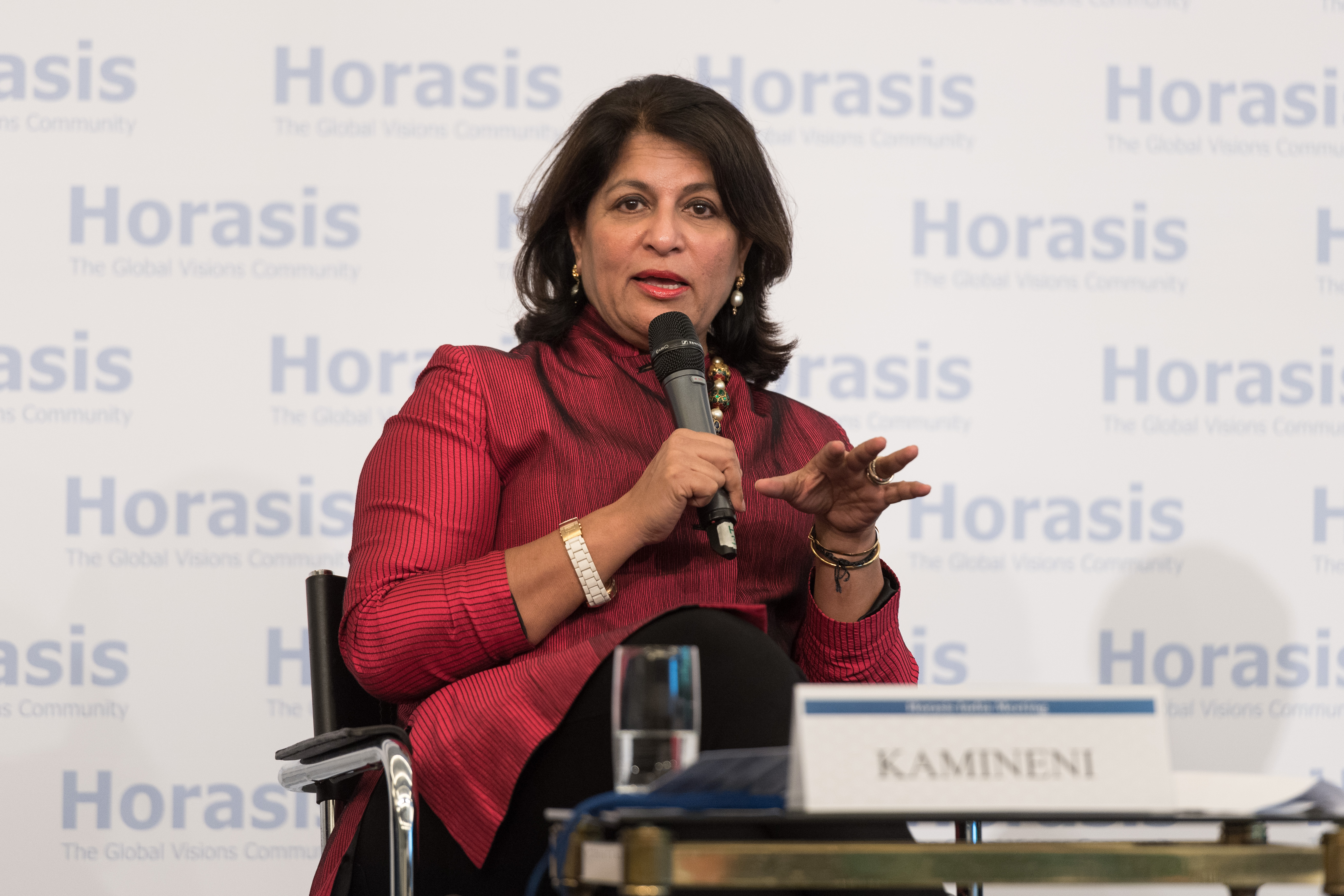 Shobana Kamineni, Executive Vice-Chairperson, Apollo Hospitals Enterprise - 'India is good news'